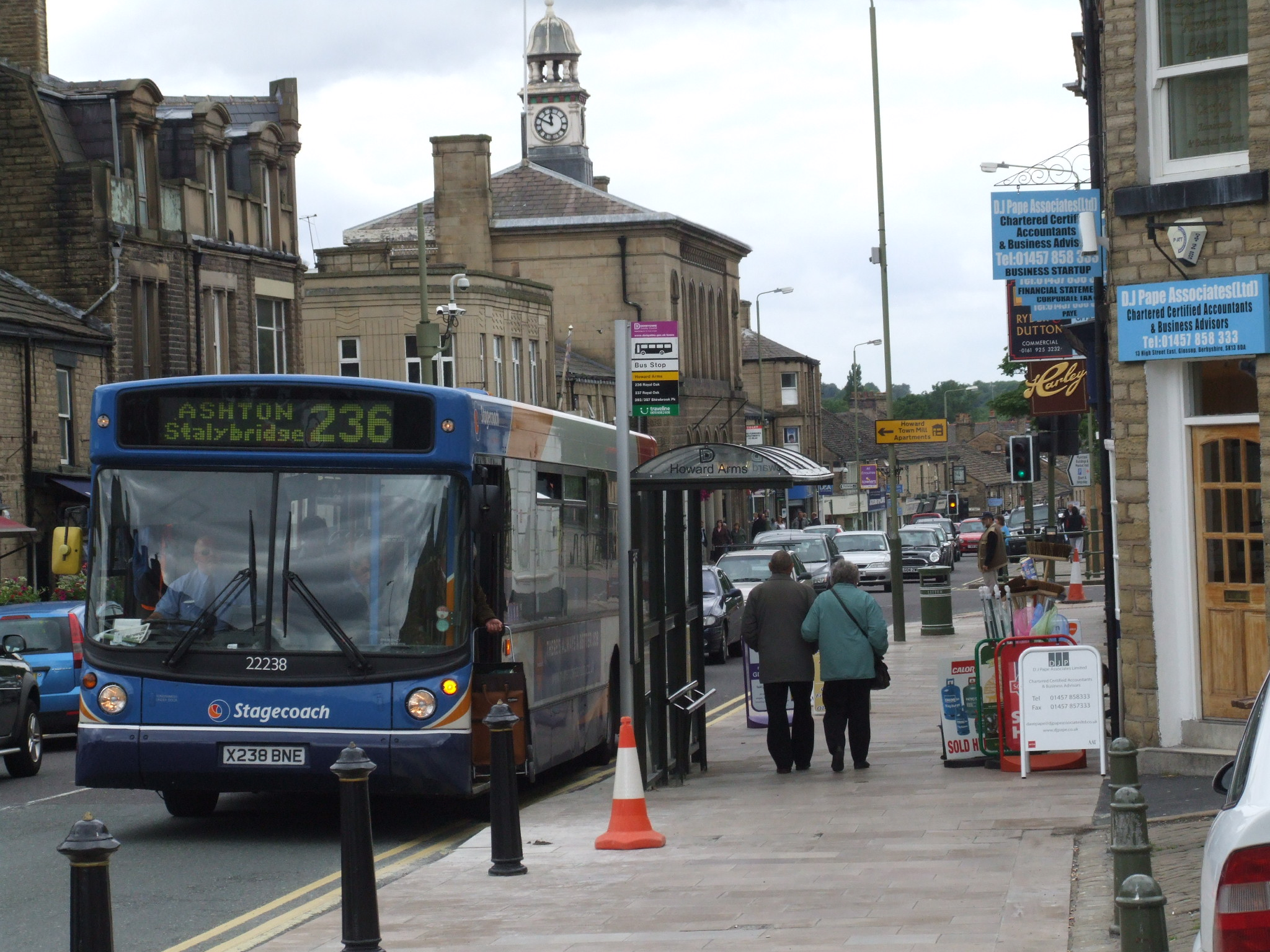 Glossop is a village in Derbyshire on the edge of Greater Manchester. Stagecoach X238BNE bus on Glossop High Street A57. Howard Arms bus stop. Stagecoach 236 route to Ashton and Stalybridge. Market Hall in the back ground.